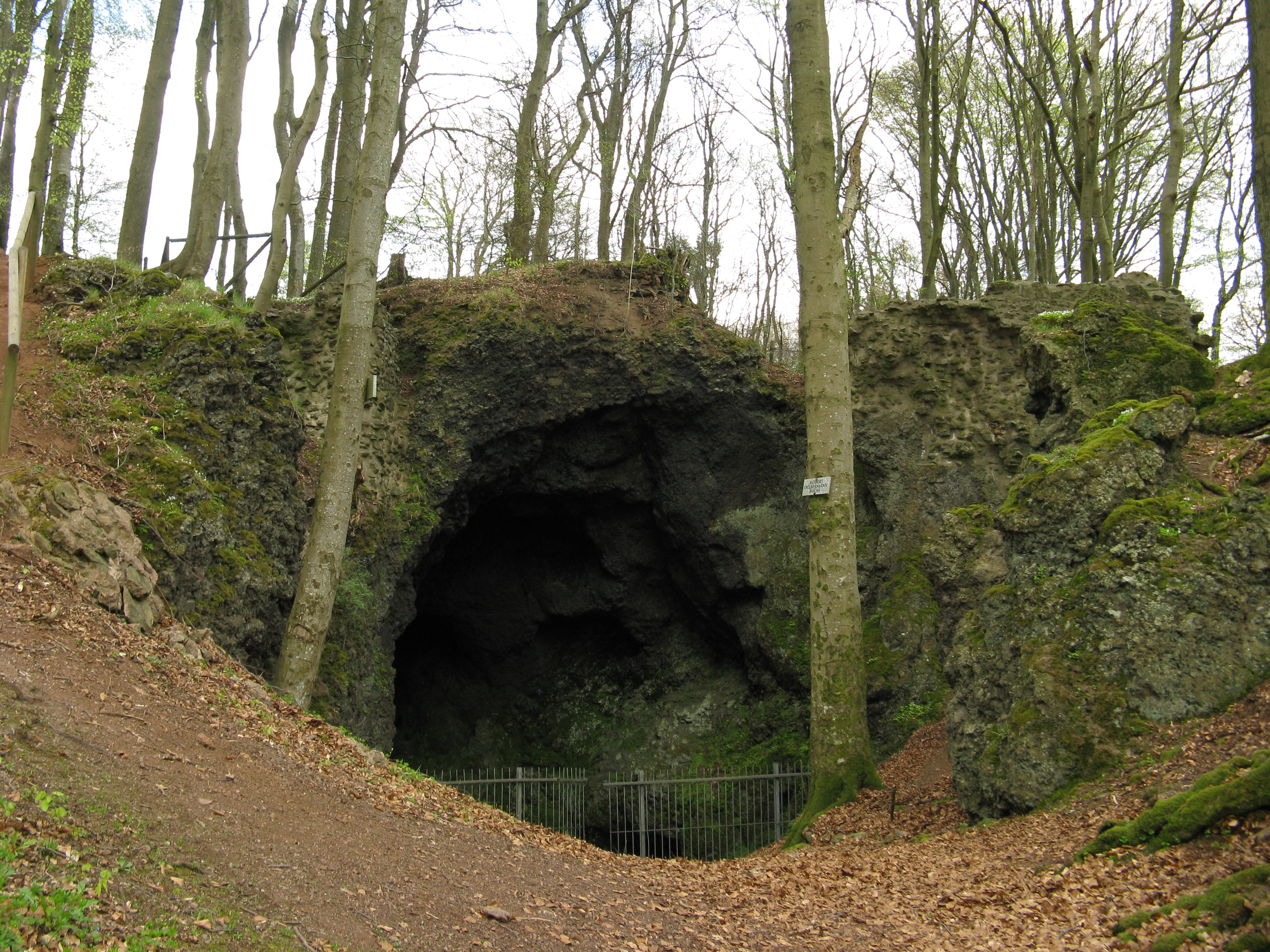 Cave on top of the Nerother Kopf, Rhineland-Palatinate, Germany